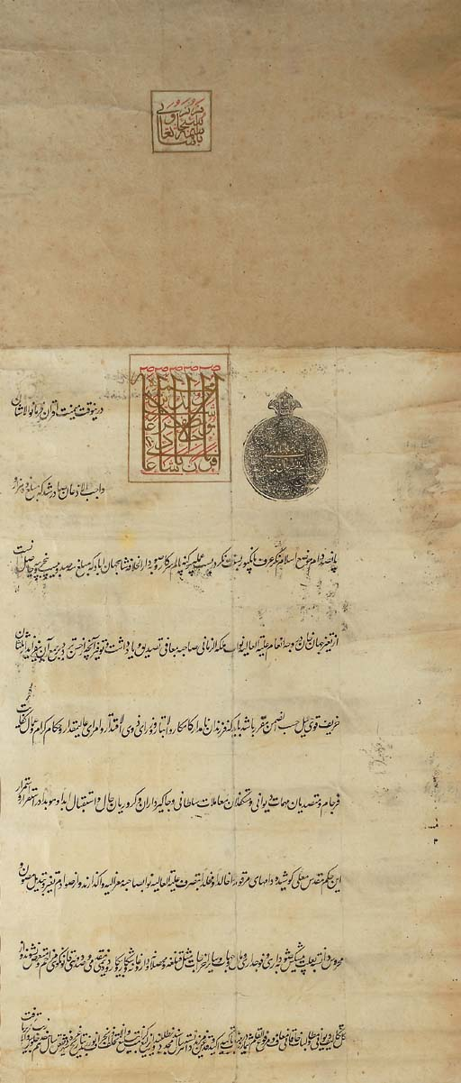 An imperial order, or farman, from the time of Shah 'Alam II, dated 1776 "FIRMAN. Period of Shah 'Alam, Mughal India, AH 1 Dhu'l Qa'da, 7th regnal year/12 December 1776 AD. Persian manuscript on cream paper, 9ll. of black nasta'liq with large seal impression of Shah 'Alam above dated 1173 next to gold tughra, a further gold inscription above, mounted, framed and glazed Document 44 x 18¾in. (111.8 x 47.2cm.)." "Lot Notes: This firman concerns the allocation of 10500 dam, a small amount of money, from one Islam Negar. The tughra reads firman-e abu'l muzaffar jalal al-din muhammad shah 'alam padshah-e ghazi, The edict of Abu'l Muzaffar Jalal al-Din Muhammad Shah 'Alam, the triumphant King.The reign of Shah 'Alam II began in the year 1173/1759 and he ruled until 1221/1806 with one brief interruption. The seal impression is dated in his first regnal year, 1173/1759-60."